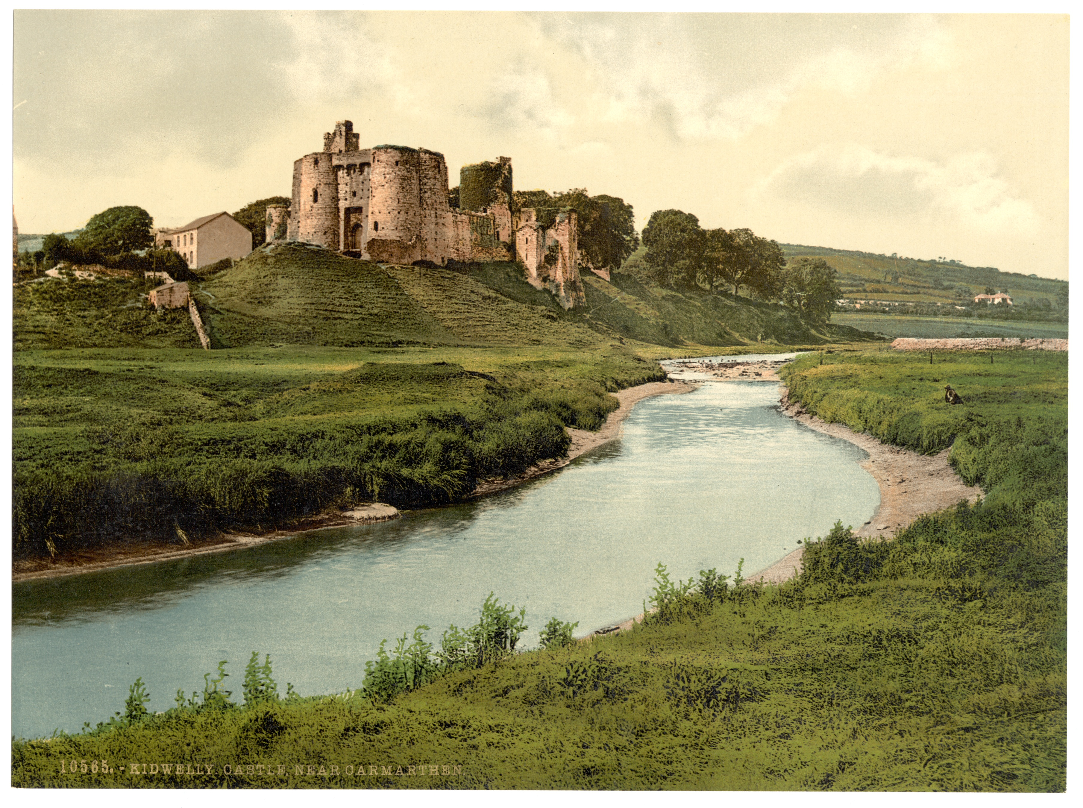 Title from the Detroit Publishing Co., catalogue J-foreign section. Detroit, Mich. : Detroit Photographic Company, 1905.; More information about the Photochrom Print Collection is available at Forms part of: Views of landscape and architecture in Wales in the Photochrom print collection.; Print no. "10565".